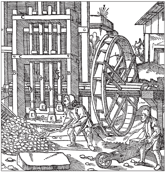 Stamp ore crusher by Georgius Agricola